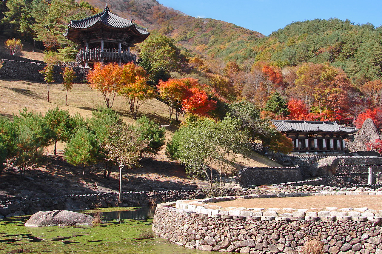 Main grounds of Samseonggung where the Sages's shrine hall is located. Samseonggung Shrine dedicated to the traditional worship of the three mythical creators of Korea: Whanin, Whanung, and Dangun.